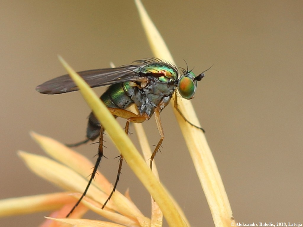 Dolichopus claviger